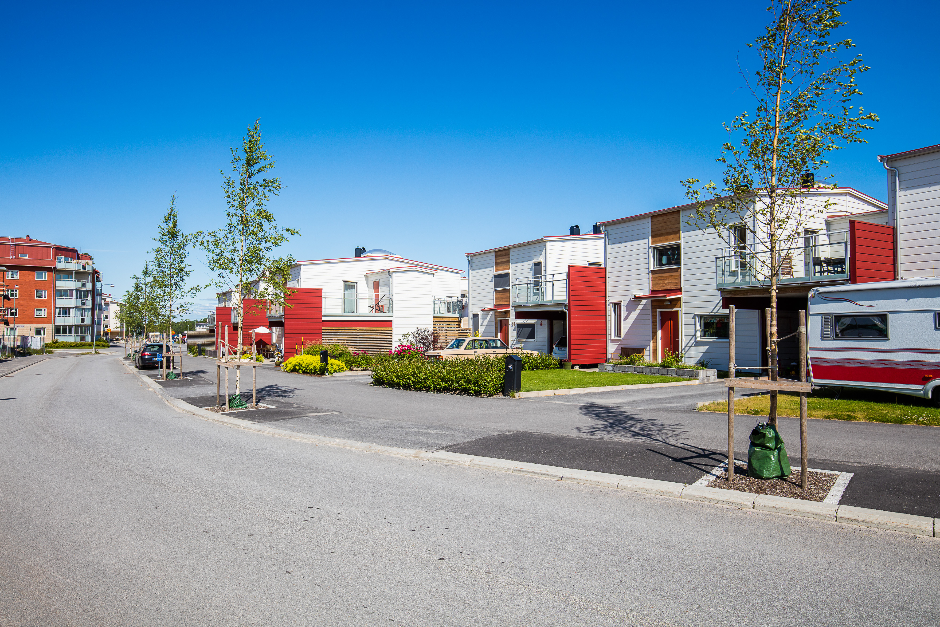 Housing in Tomtebo district of Umeå, Sweden.